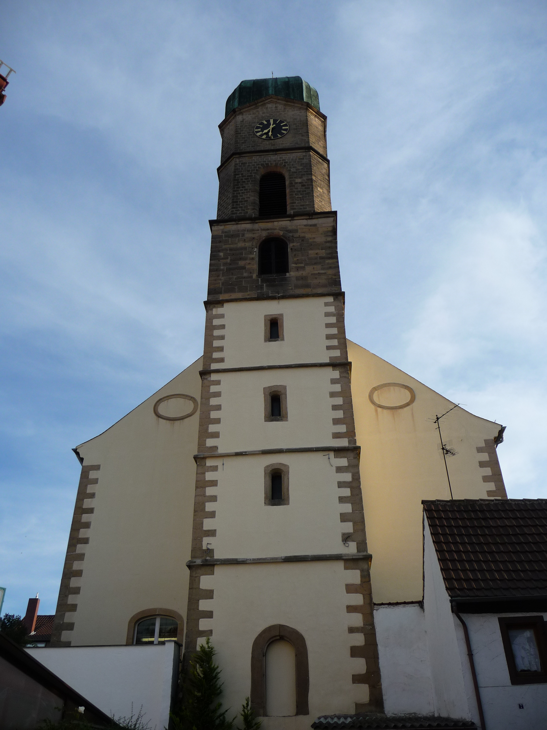 Burgkirche Bad Dürkheim